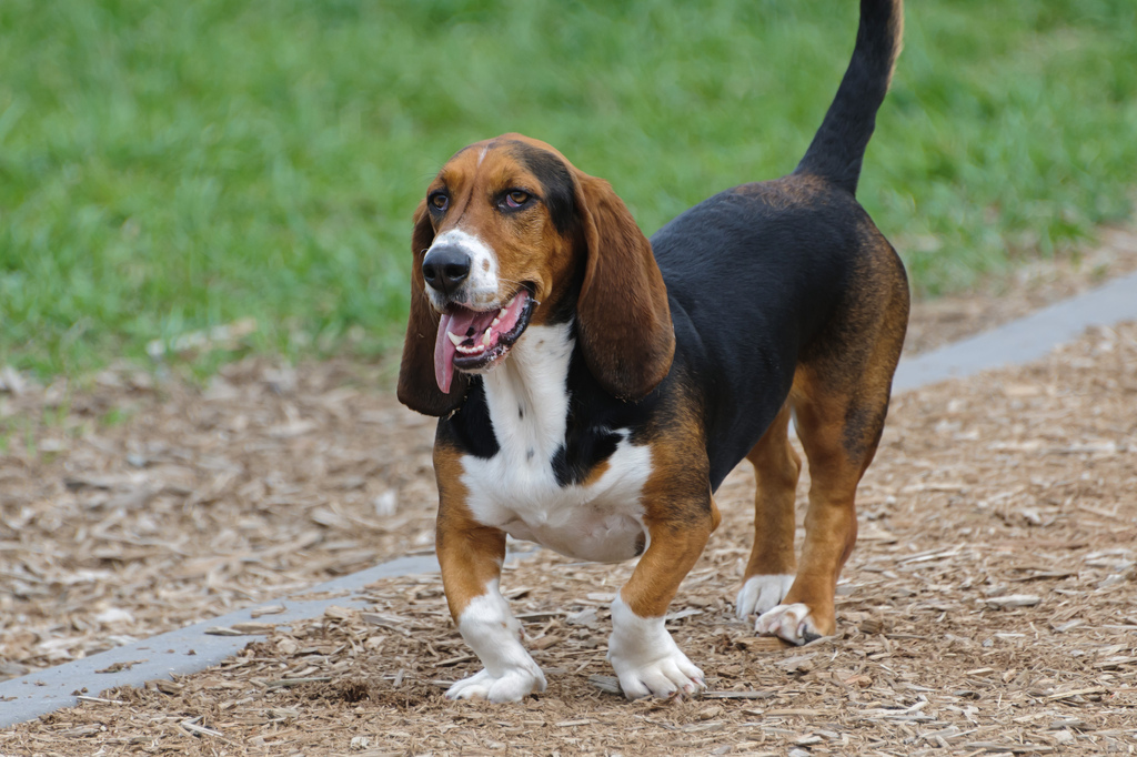 D300, 28-300 at 300mm, f5.6, 1/800 Basset Hound